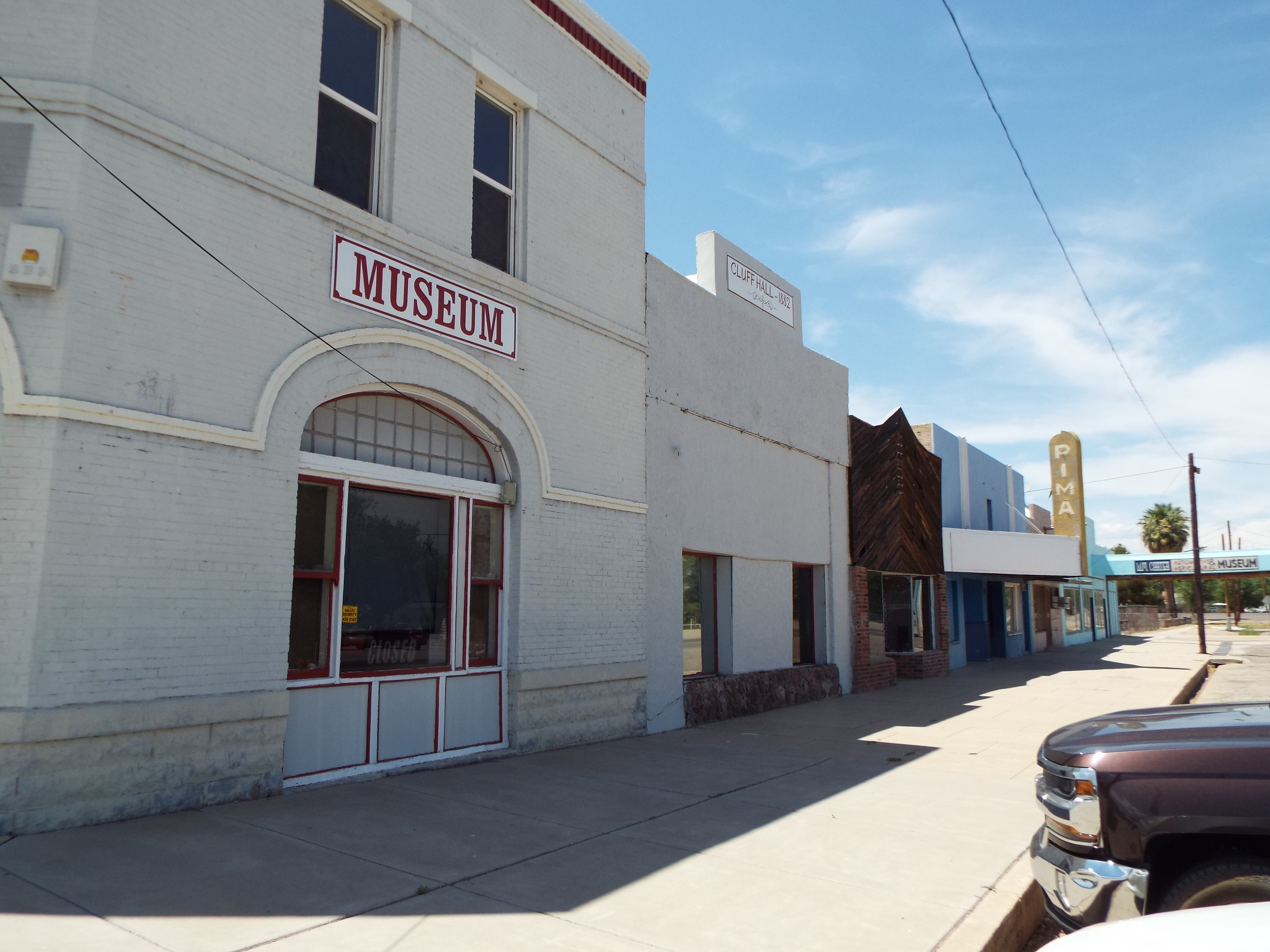 Downtown Pima block with historic buildings in Pima, Arizona